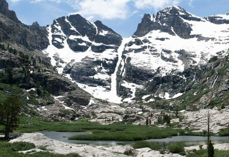 Seitz Lake, Nevada, looking southeast. A portion of Mt. Gilbert is visible at the upper left corner. Mt. Mazama is just left of the upper center, and Mt. Silliman is at the upper right.